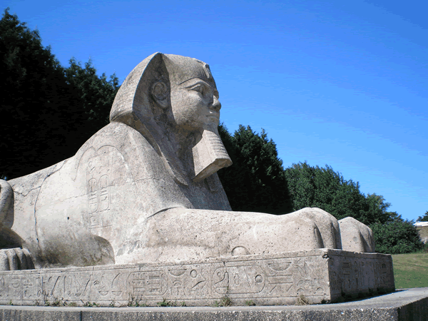 19th century copy of an ancient Egyptian Sphinx, part of the Crystal palace, London